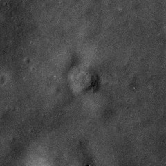 Van Serg crater, Taurus–Littrow valley, on the moon. Sun elevation 46 deg., spacecraft altitude 112 km.